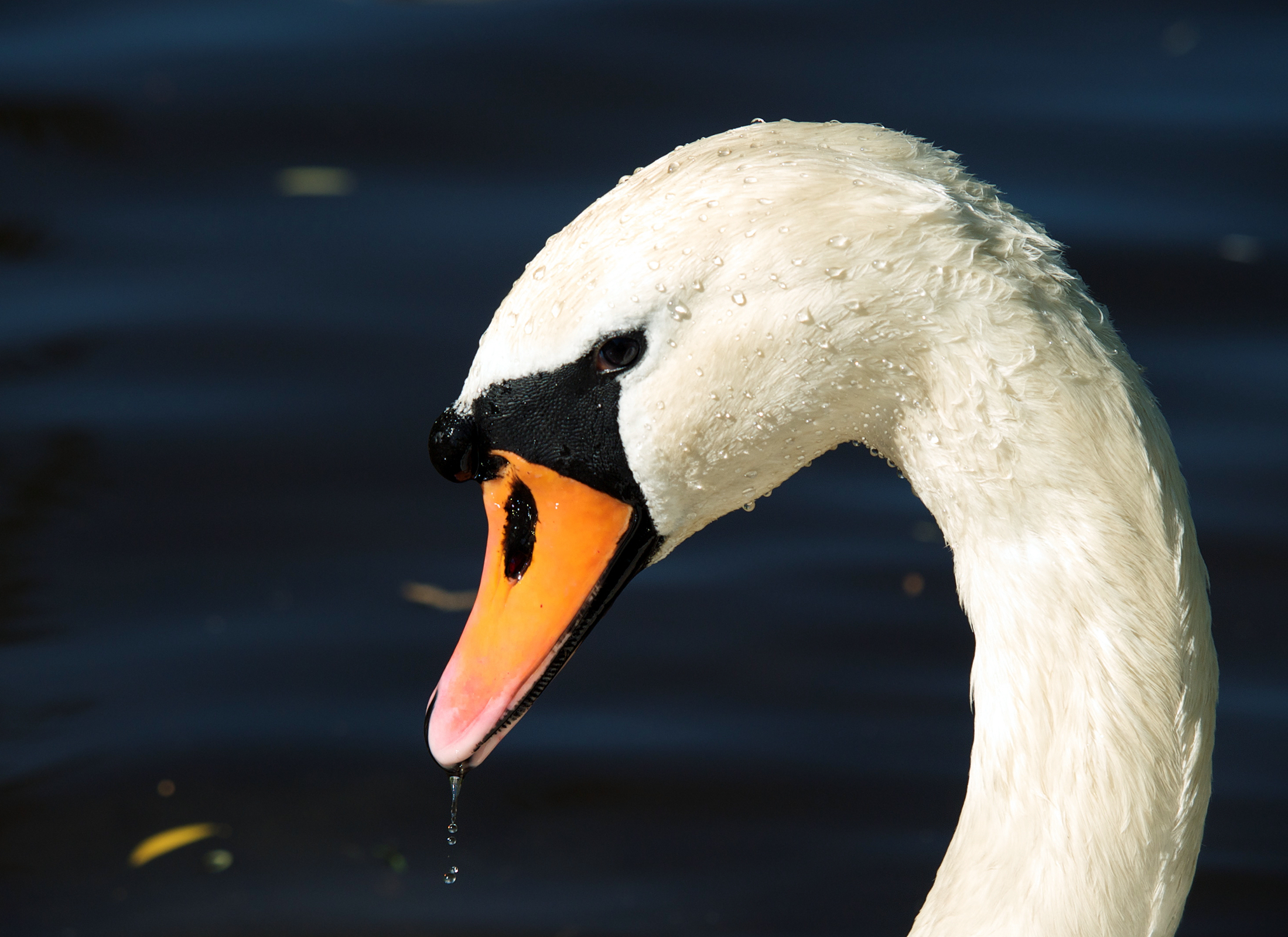 Mute Swan (Cygnus olor), head details, Chemnitz, Germany